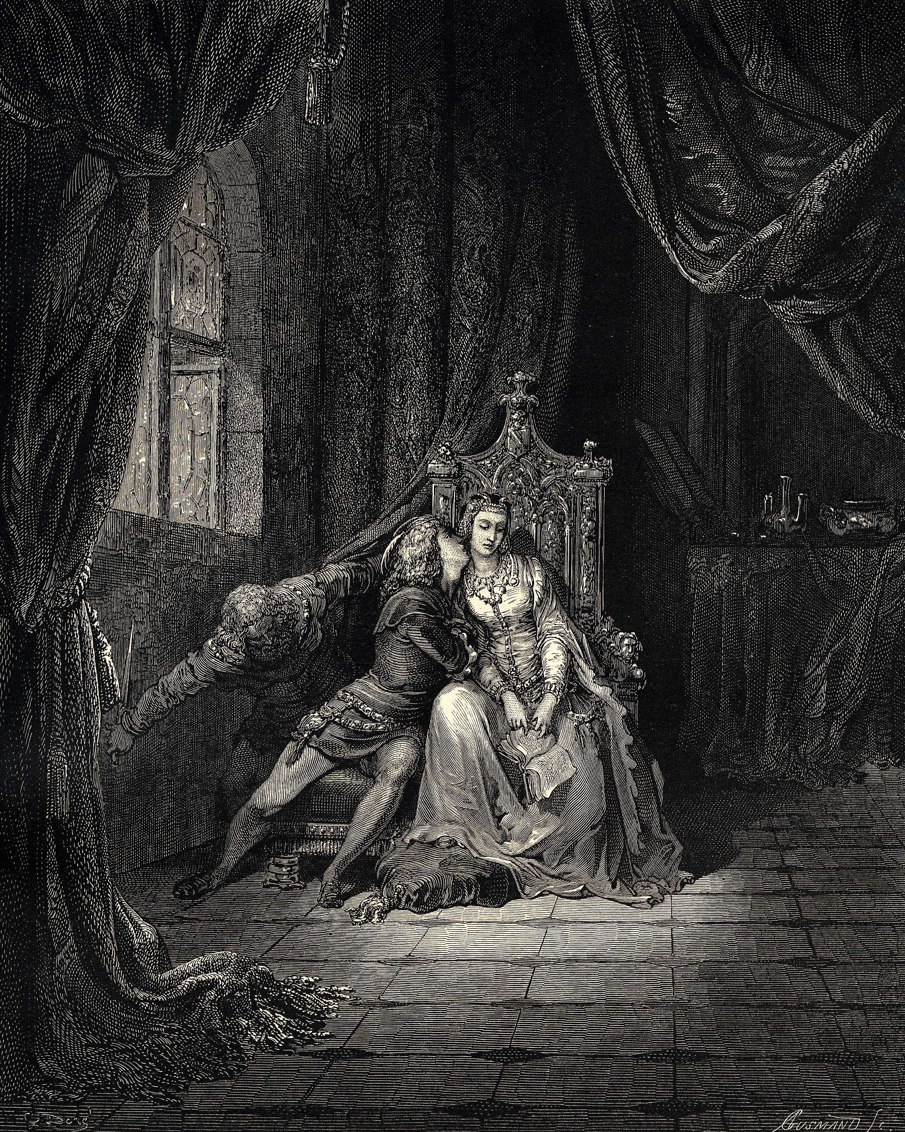 The Inferno, Canto 5-2